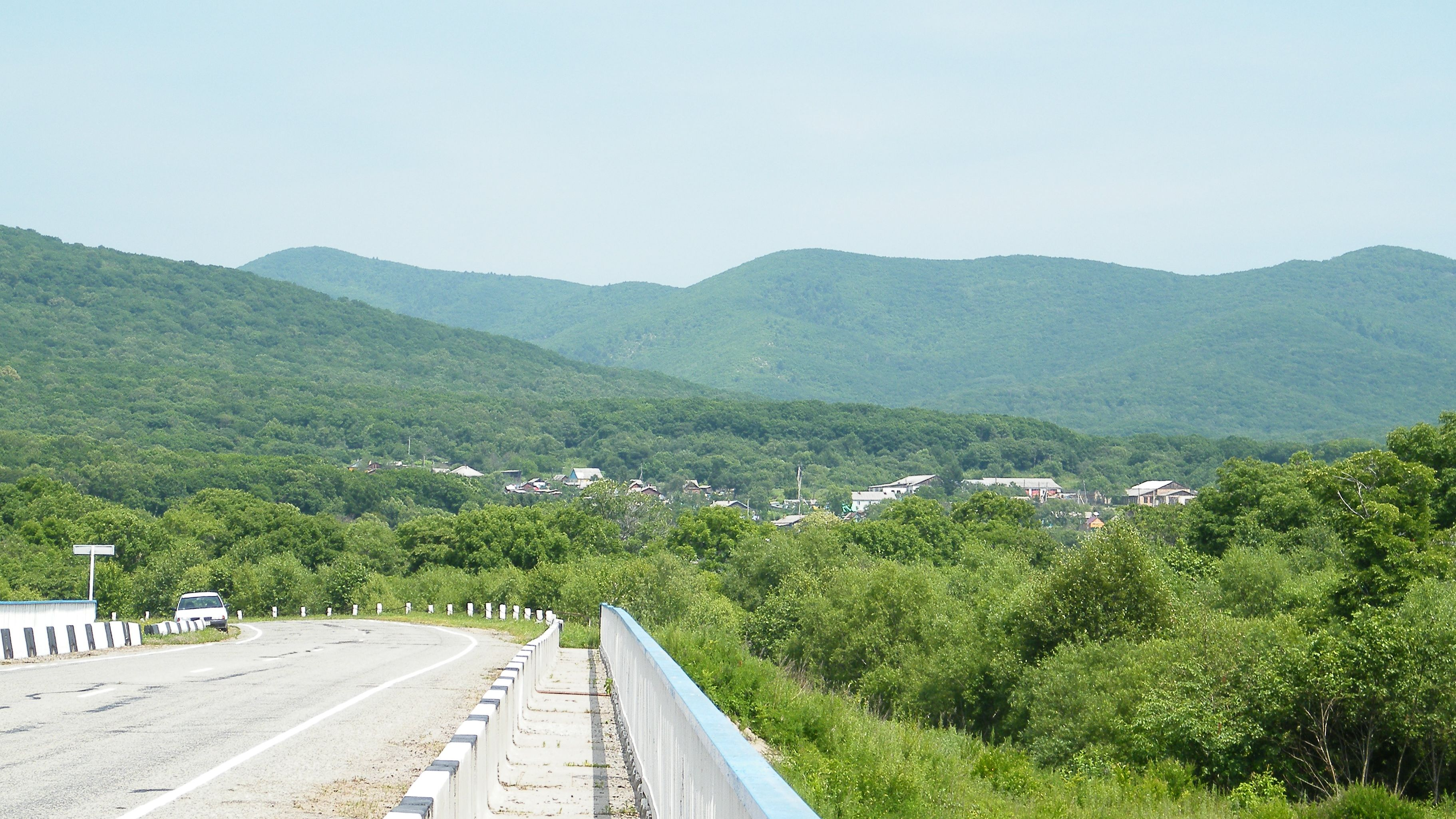 Село Пермское вид с моста